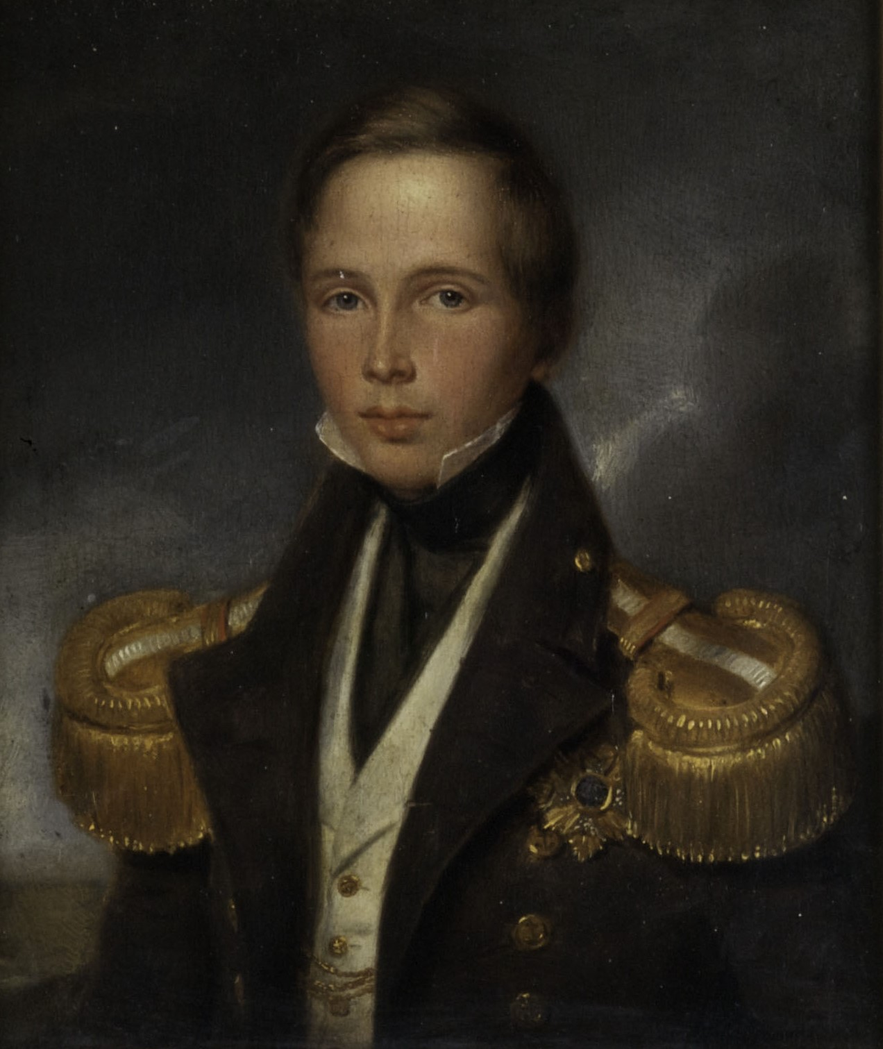 Portrait of Prince Henry of the Netherlands (1820–1879)